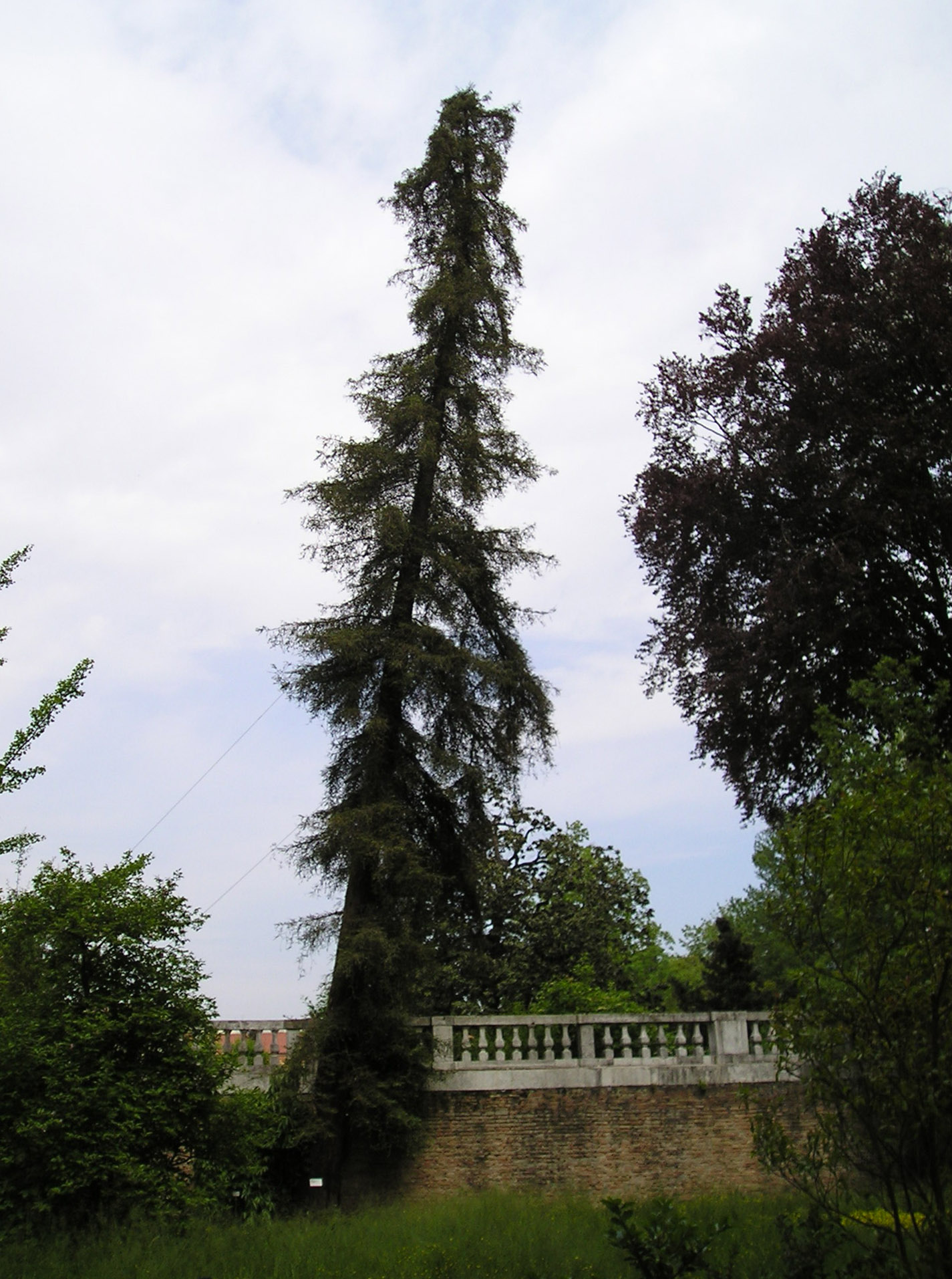 Sequoia sempervirens in the Botanical Garden of Padua